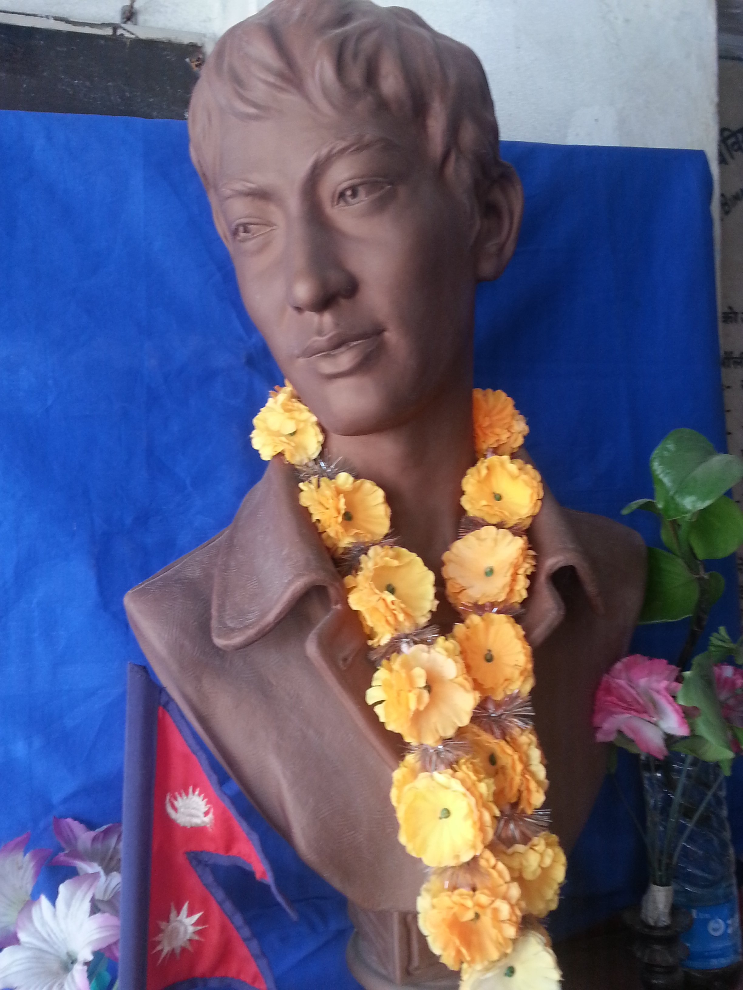 Kabi Bimal Gurung